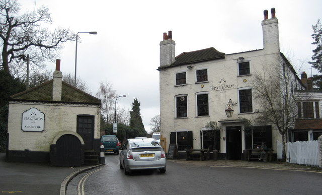 The Spaniards Inn